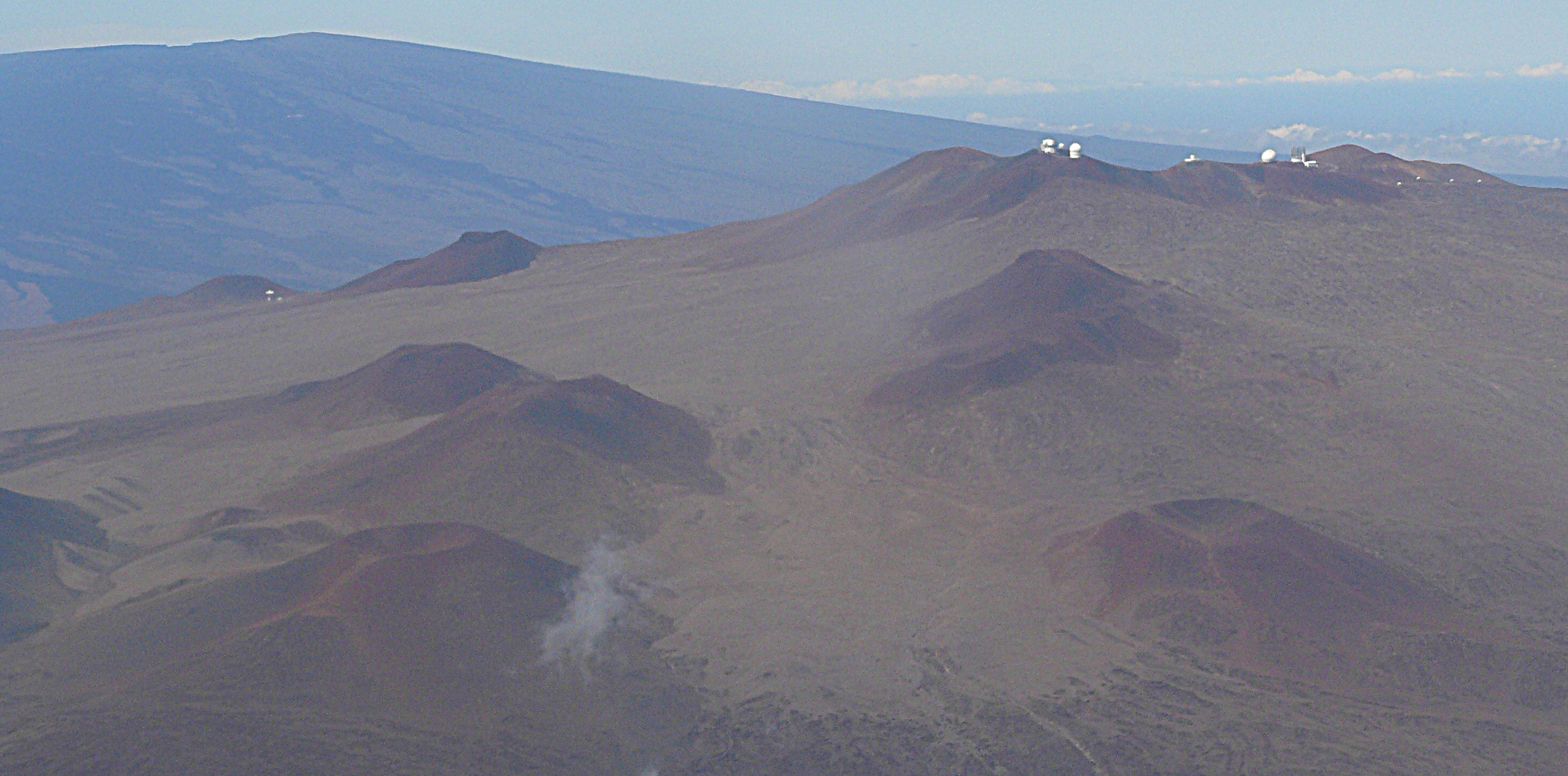 View from the summit of Mauna Kea, east side. On the right is the Mauna Kea Observatory complex, and on the left is one of the Very Large Baseline Array antennas. Mauna Loa is visible in the background.